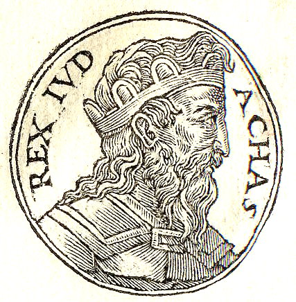 Ahaz was king of Judah, and the son and successor of Jotham.